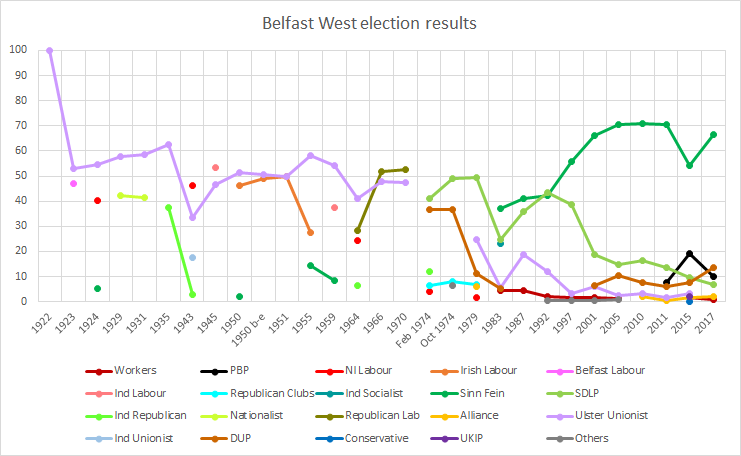 Belfast West election results